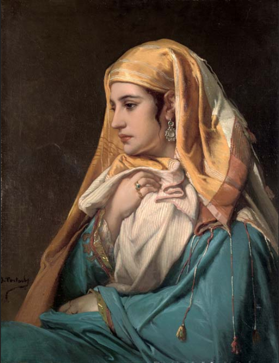 Oriental woman